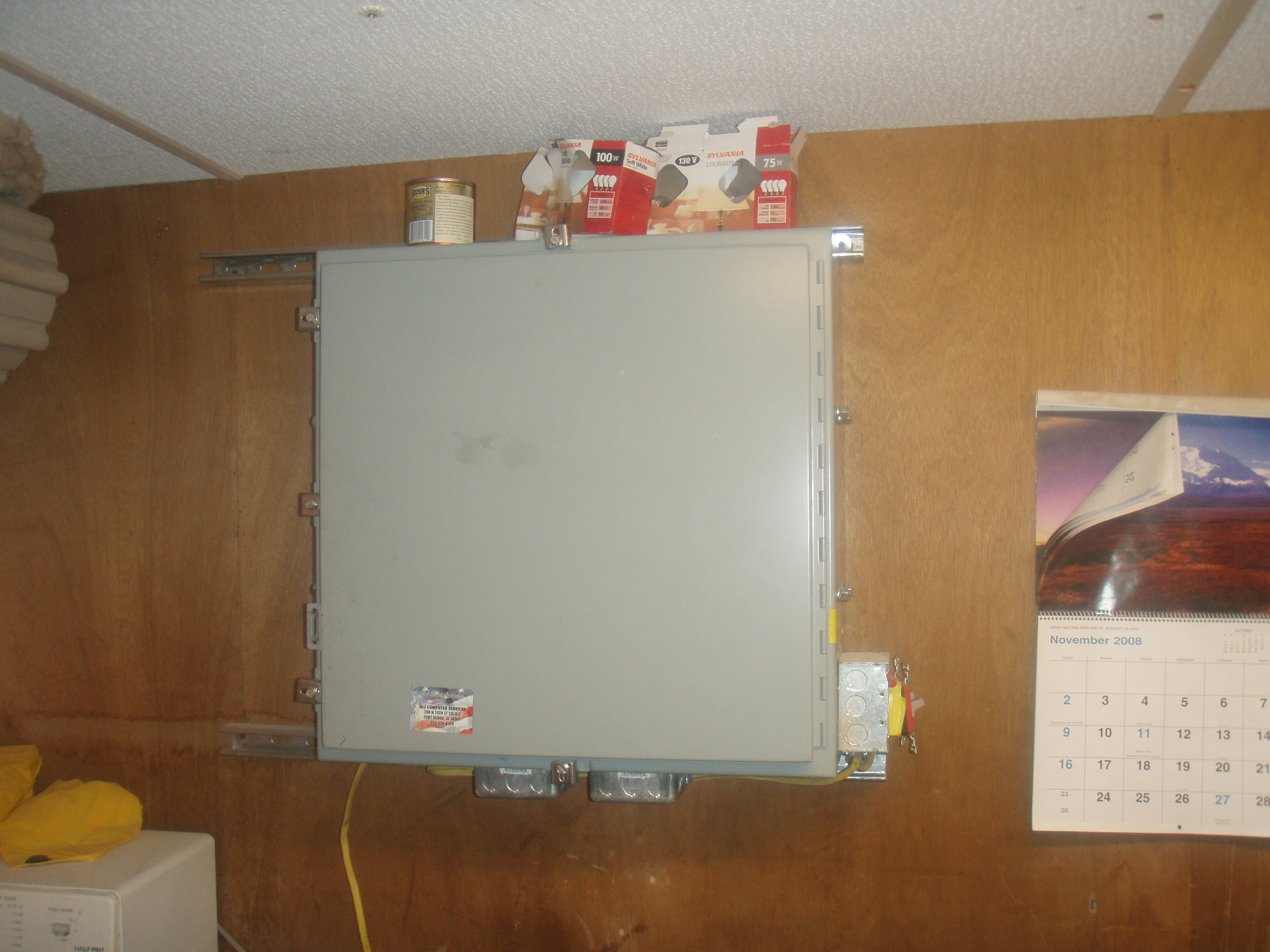 Picture taken by myself, "LP-mn", and I place it in the public domain. It's a Hot Box that way made from scrap parts and mounted in a job trailer.